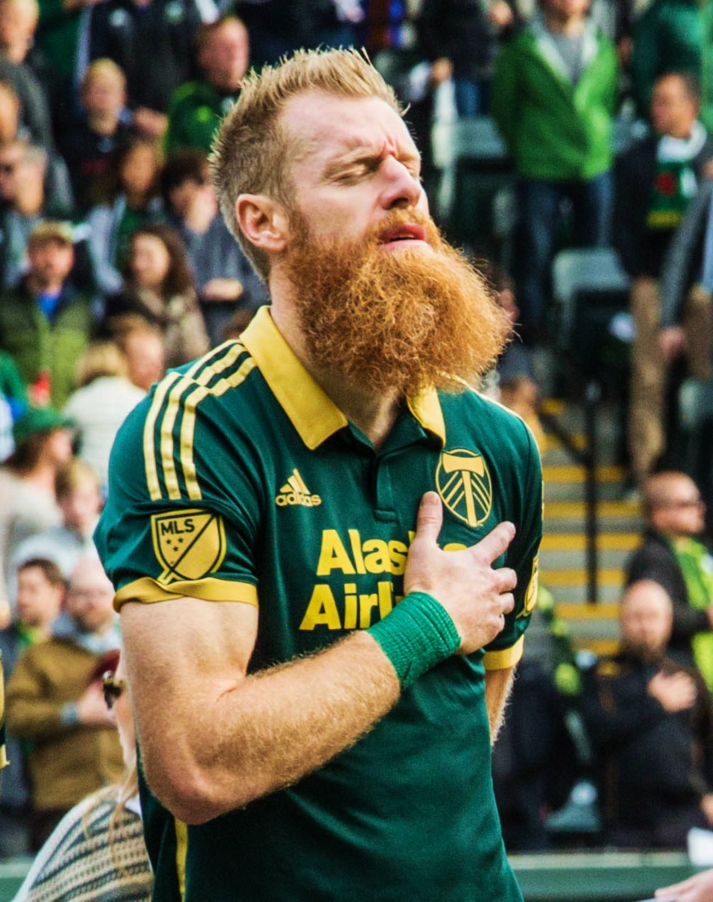 Nat Borchers